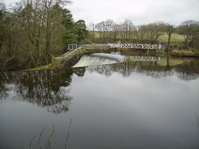 Weir at Abbeystead. Glass calm then a torrent over the rather nicely curved weir.